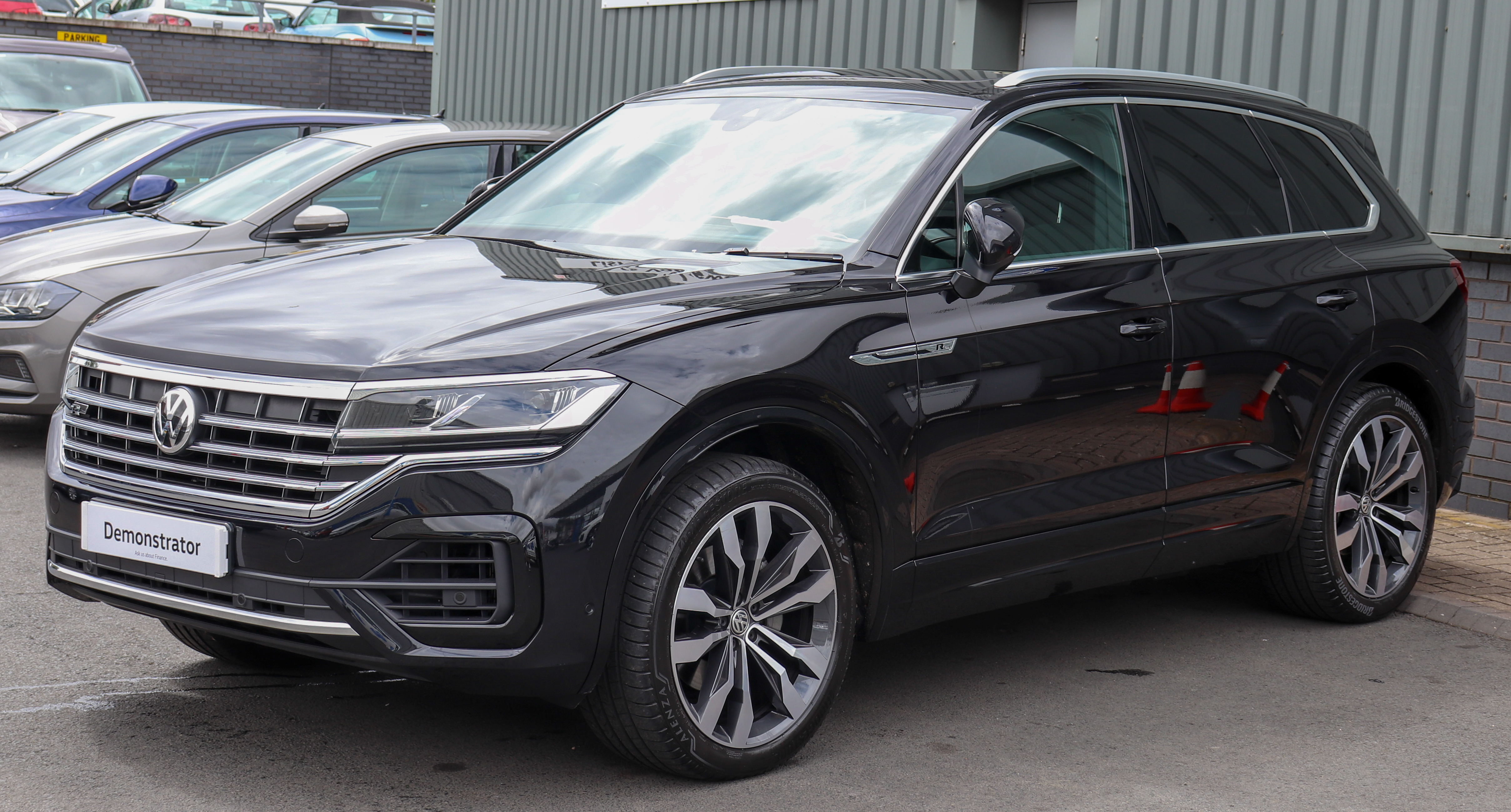 2018 Volkswagen Touareg V6 R-Line TDi Automatic 3.0 Taken in Stratford-upon-Avon